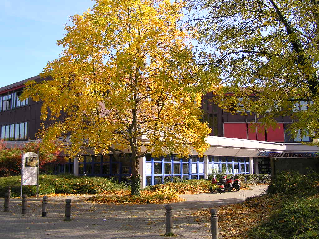 Bibliotheca Bipontina Zweibrücken. Bibliotheca Bipontina. Also the entrance to the Helmholtz Gymnasium